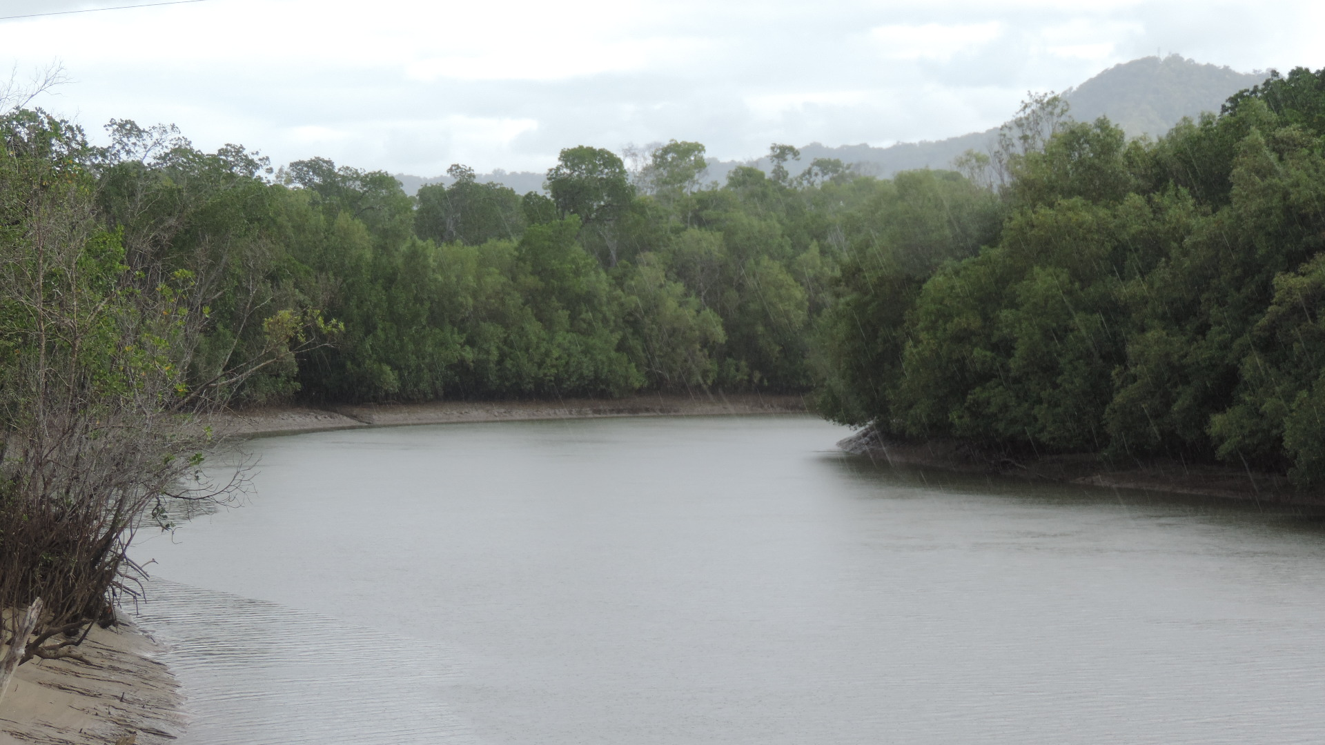 Looking upstream of Redden Creek (off shoot of Barron River) from Gundy Anton Bridge, Machans Beach, 2018